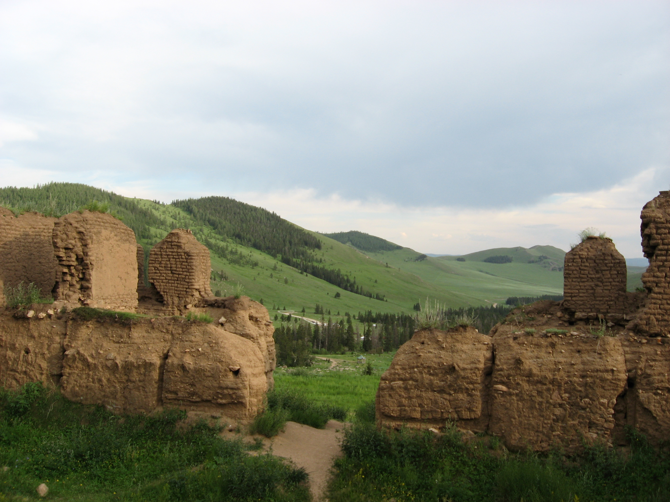 Ruins of Manzushir Monastery, some km north of Zuunmod, Töv Aimag